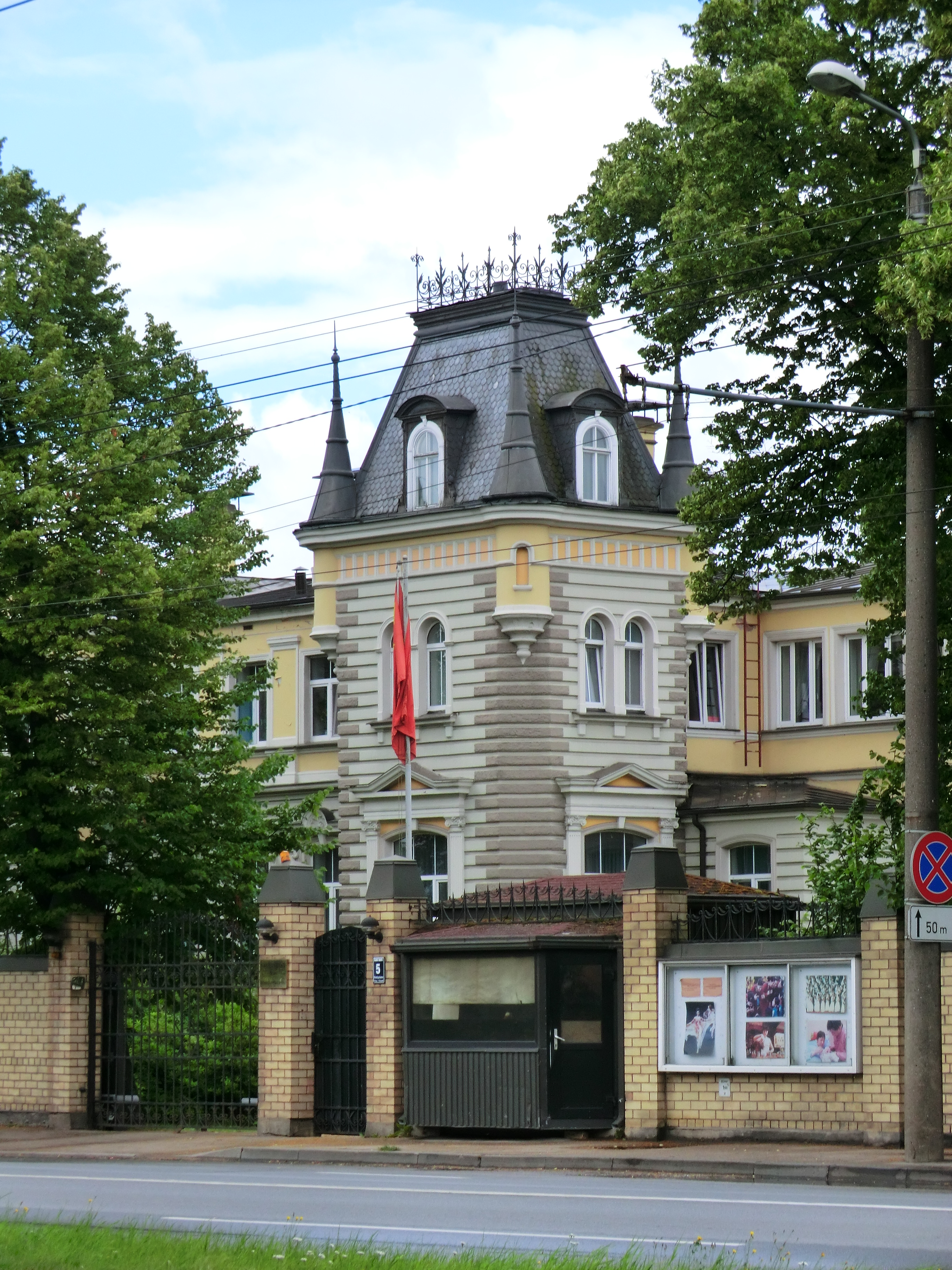 The embassy of China in Latvia, Riga, 5 Ganību dambis